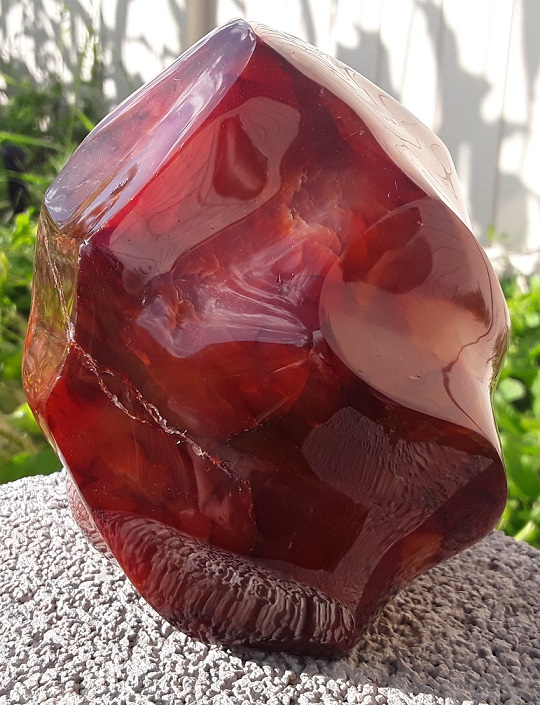 This is an example of what is called a carnelian "flame". This specimen weighs roughly 2 to 3 lbs and displays an array of reds from its reflective and somewhat translucent surfaces.